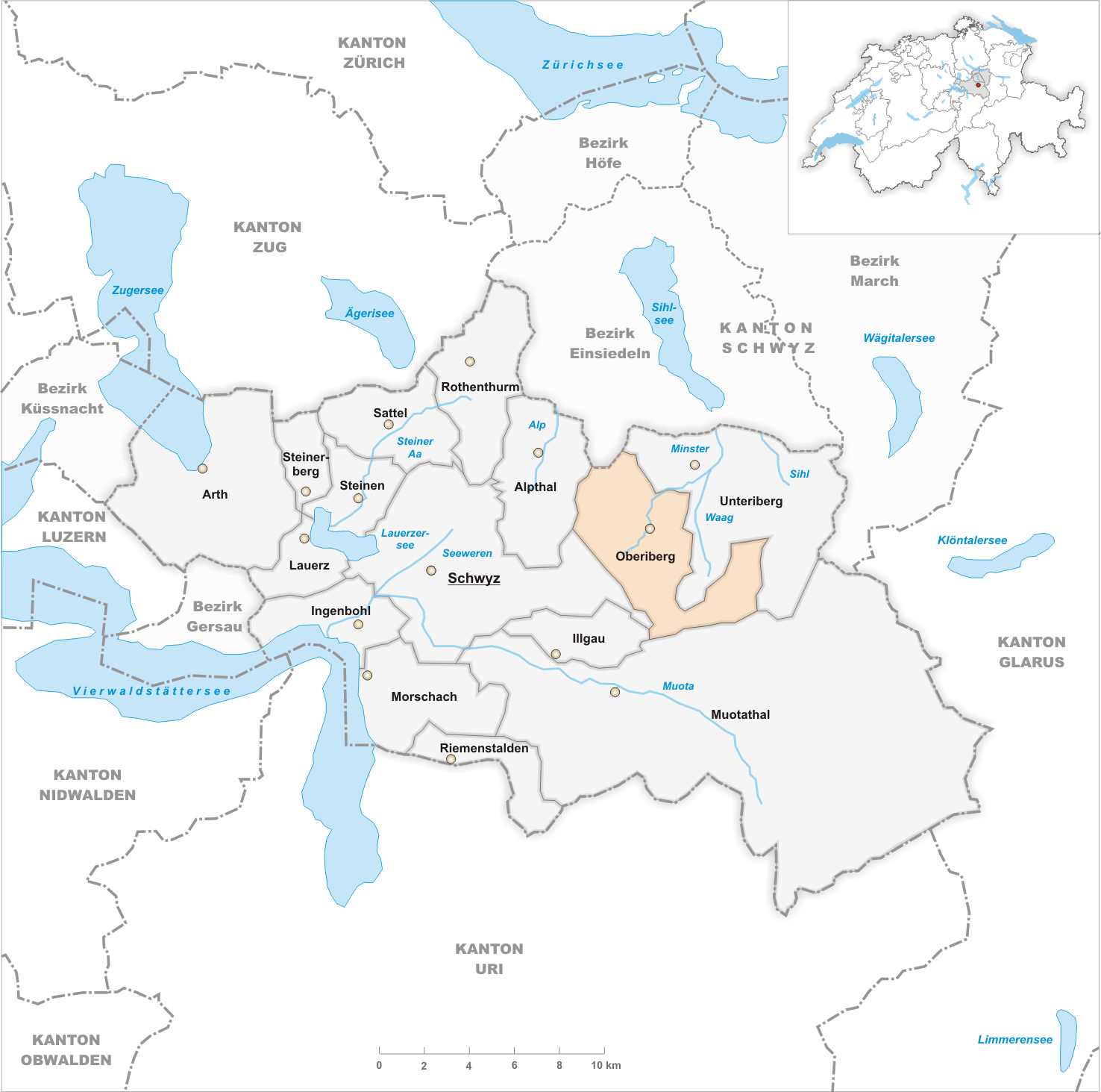 Municipality Oberiberg